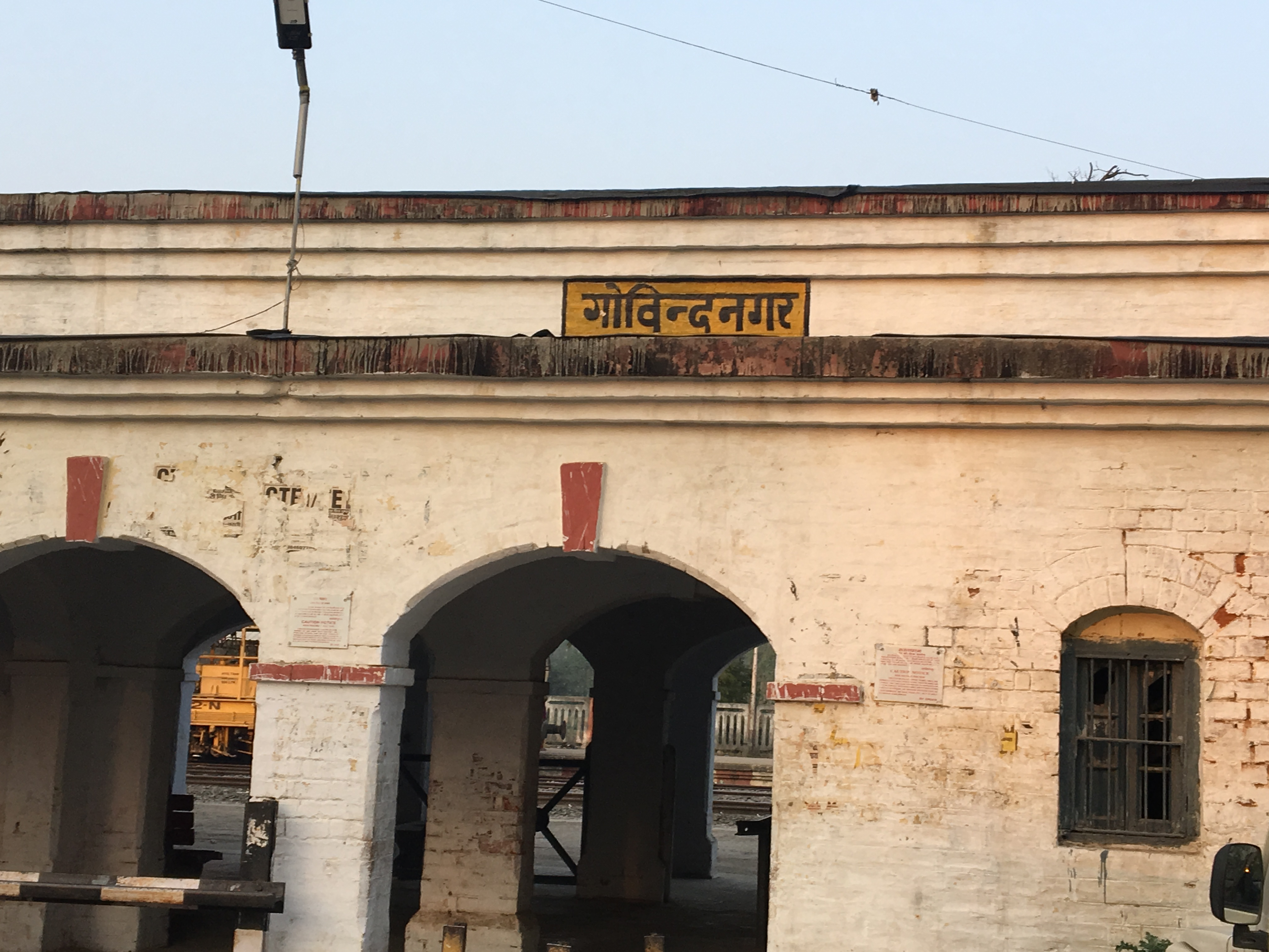 Govind Nagar Railway station is situated in Baheria, Uttar Pradesh. Station code of Govindnagar is GOVR. Here are some trains that are passing through Govindnagar railway station like Gkp-gd Passenger, Gd-gkp Passenger, Ay-gkp Passenger, Gkp-ay Passenger, Gd-gkp Passenger, and many more.